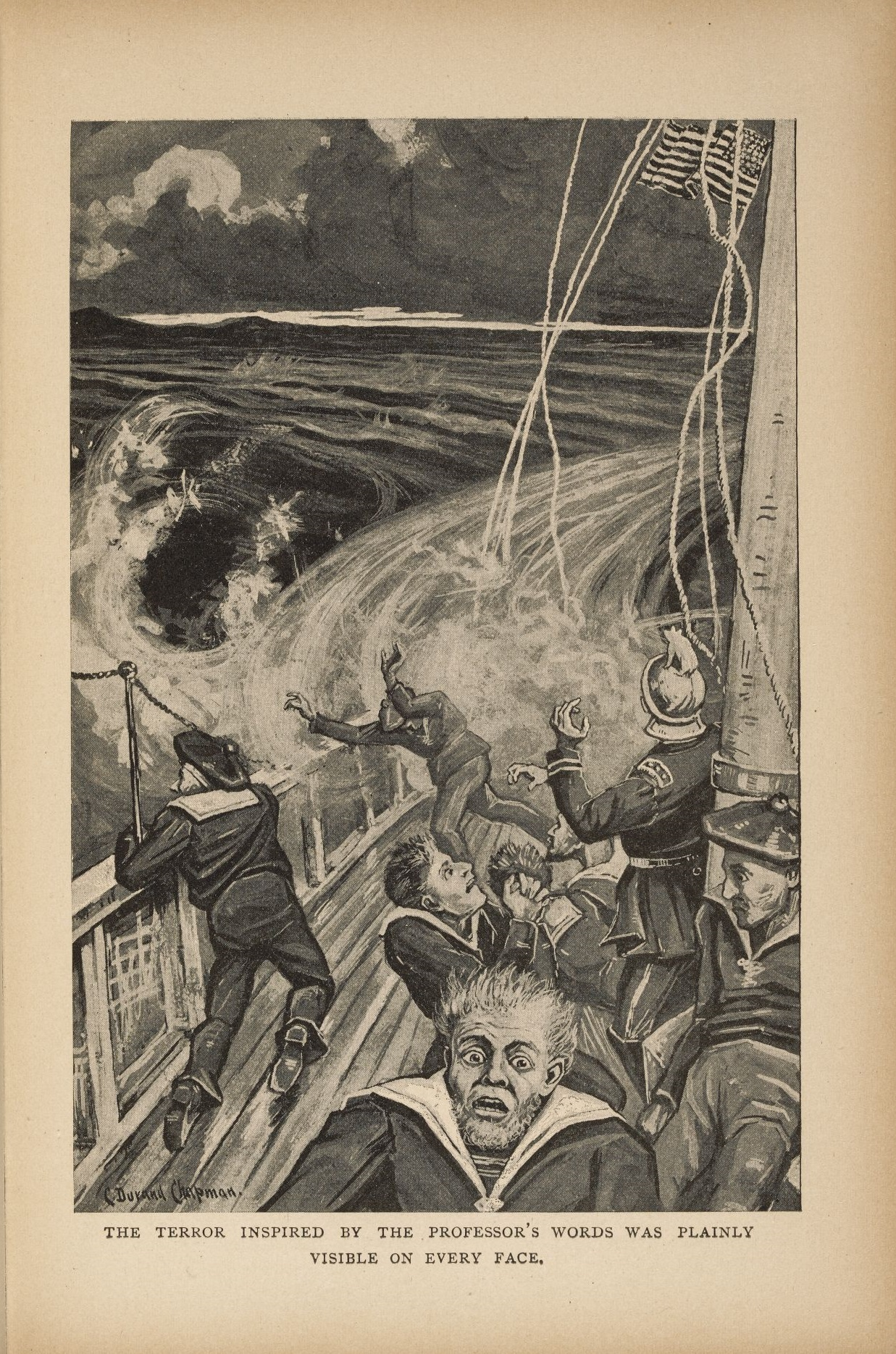 Illustration by Cyrus Durand Chapman, from The Goddess of Atvatabar: being the history of the discovery of the interior world and conquest of Atvatabar by William Richard Bradshaw (1851-1927). New York: J.F. Douthitt, 1892. SF-251, Houghton Library, Harvard University